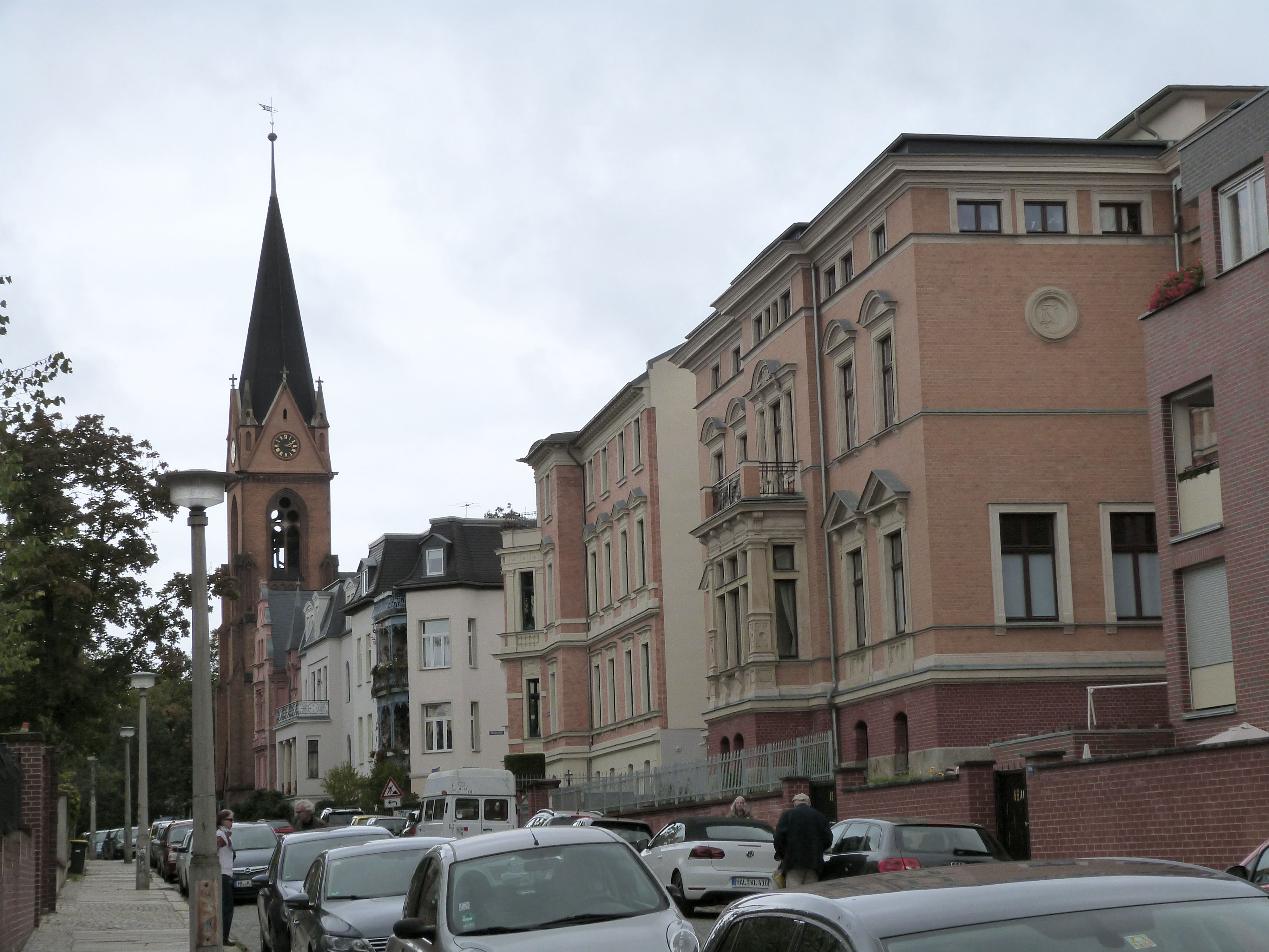 Karl-Liebknecht-Strasse with view to the Saint Stephen church, Halle (Saale)